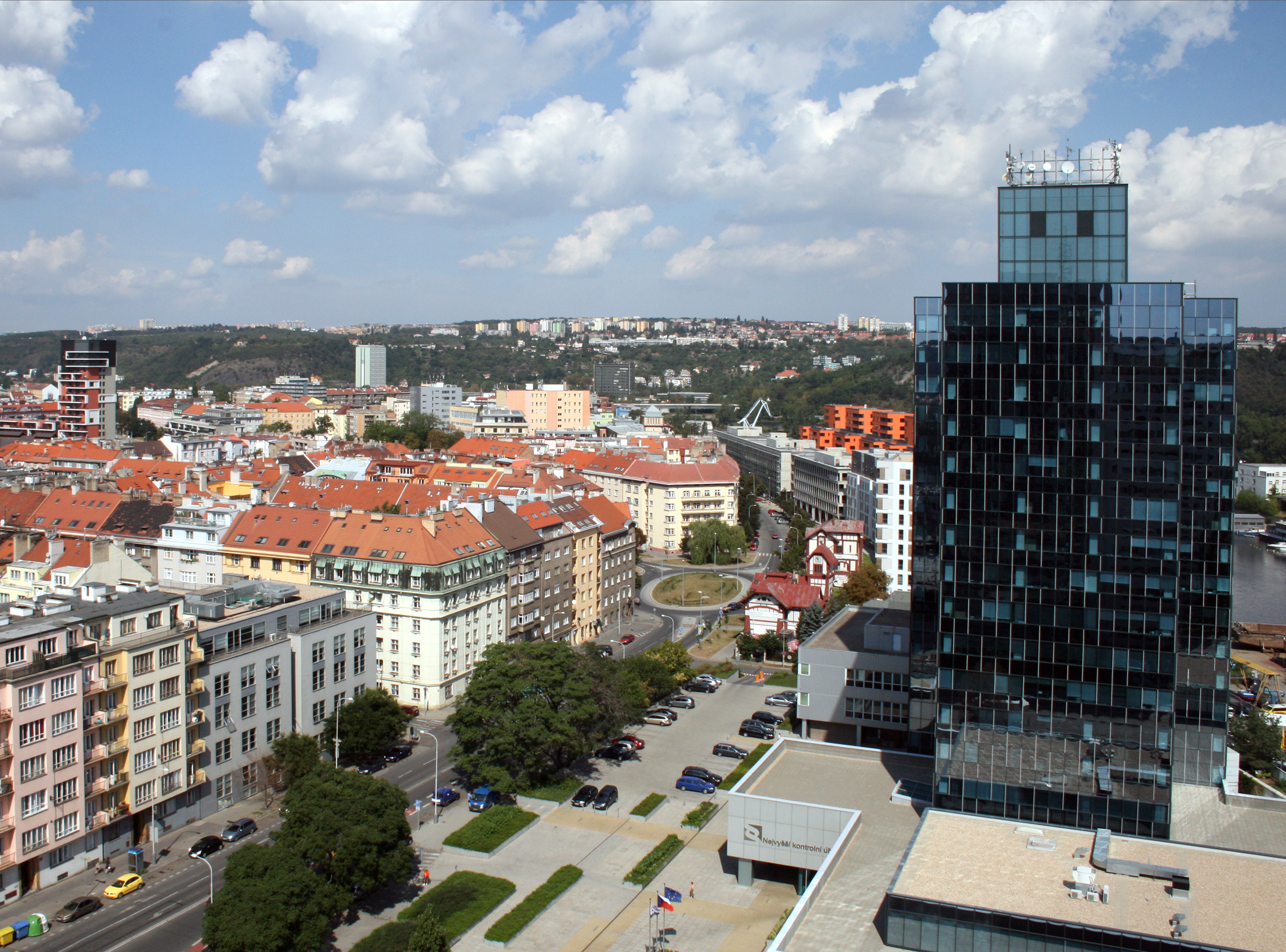 Building of Supreme Control Office of the Czech Republic in Holešovice, Prague from the top of Lighthouse Vltava Waterfront Towers, Czech Republic